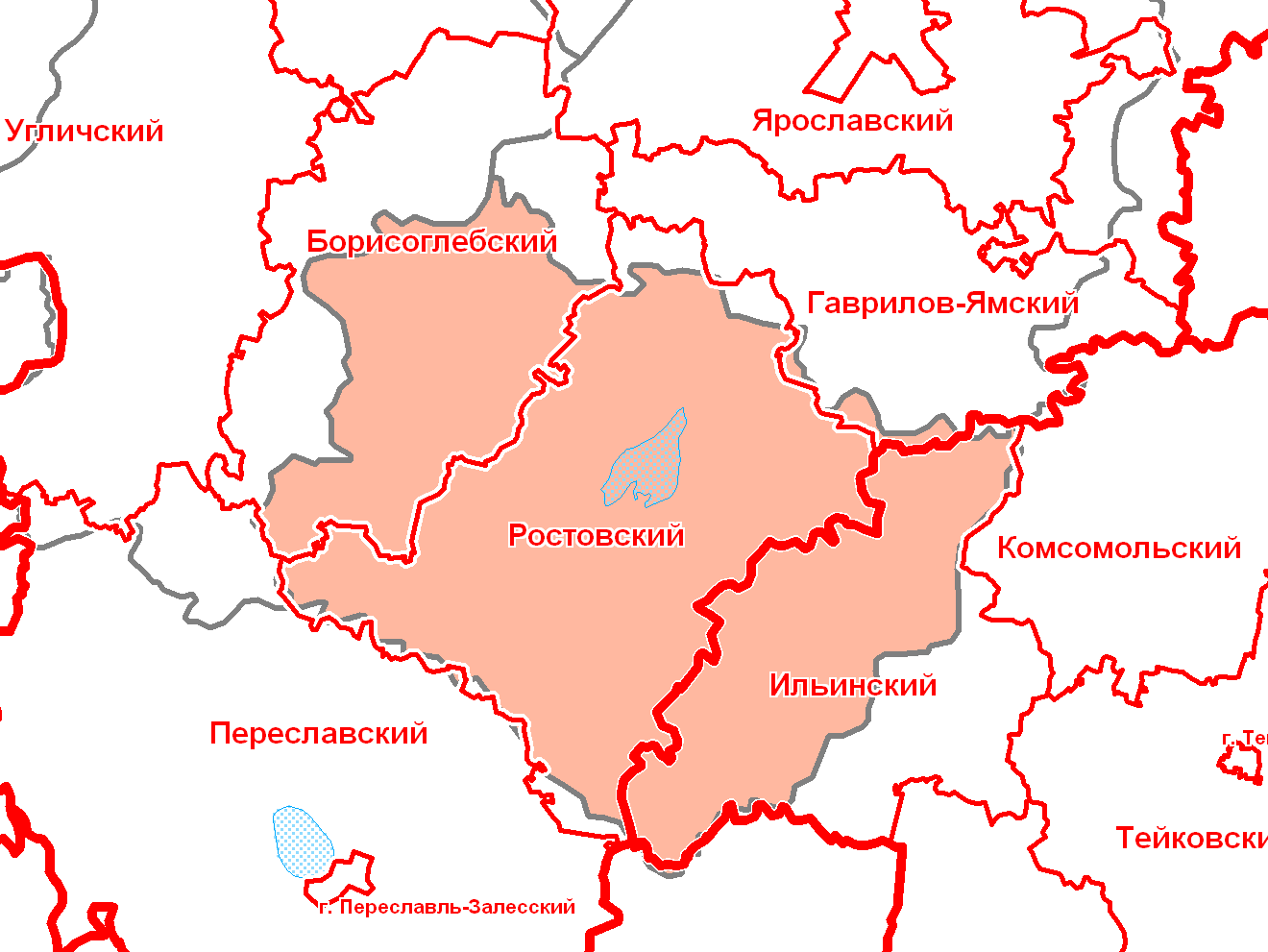 Maps of Yaroslavl Governorate